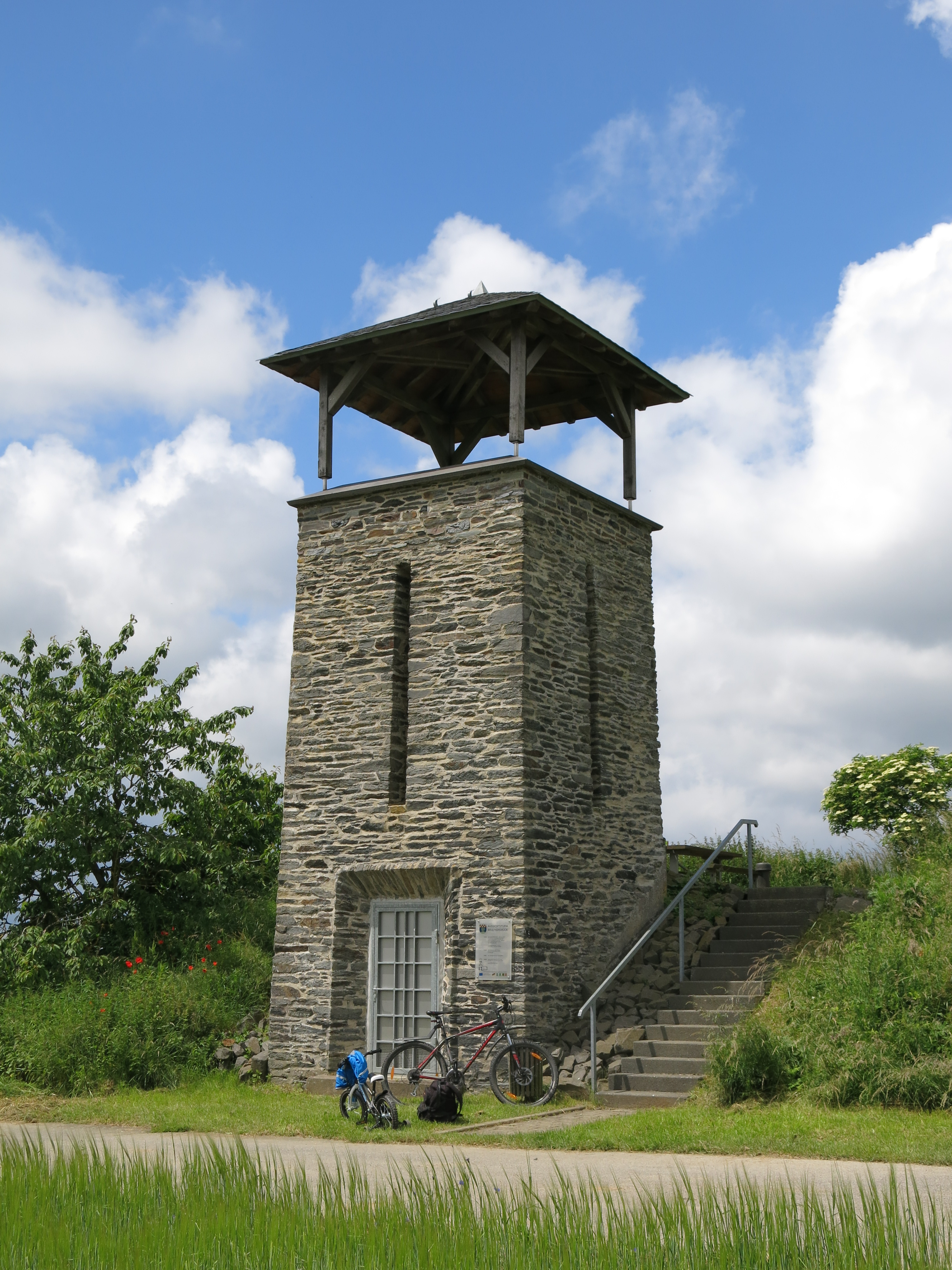 Lookout tower near Bell, Rhein-Hunsrück. See for a panoramic view from the tower.